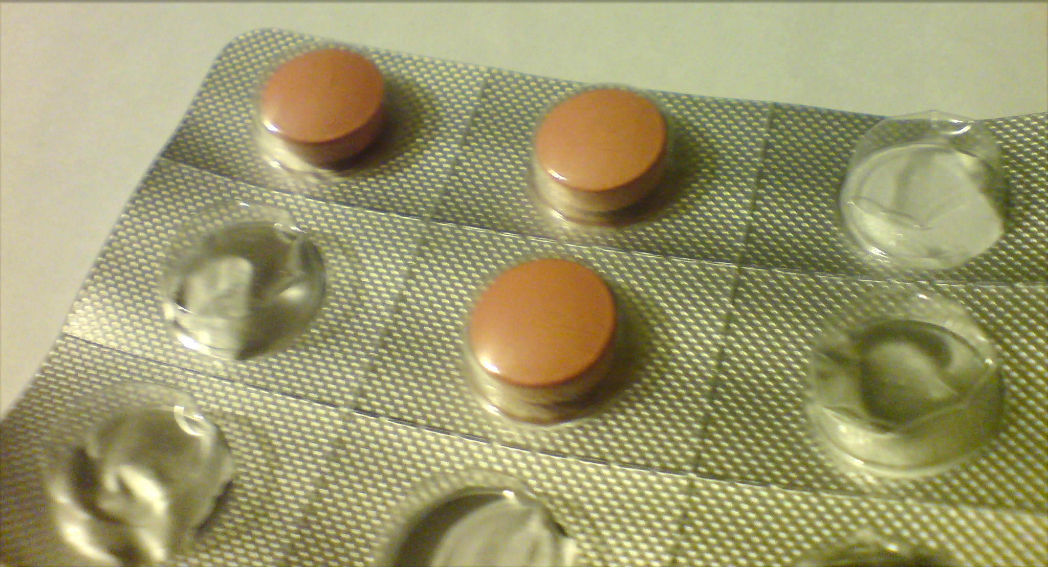 Photograph showing Malarone anti-malaria tablets purchased in the UK